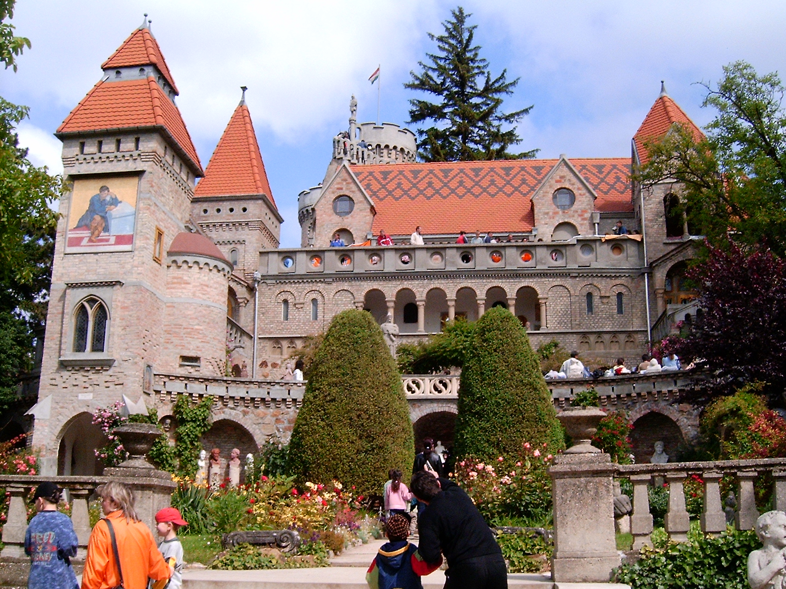 Bory Castle, Székesfehérvár, Hungary